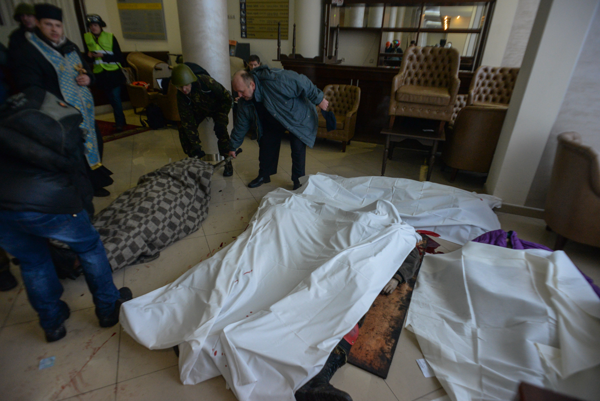 Dead bodies in a makeshift hospital and morgue in the hotel Ukraine lobby. Clashes in Kyiv, Ukraine. Events of February 20, 2014